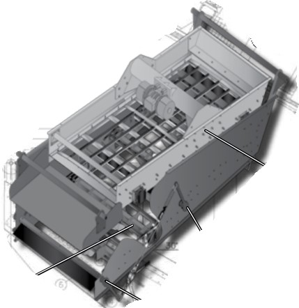 A mobile screening equipment which is double deckered.